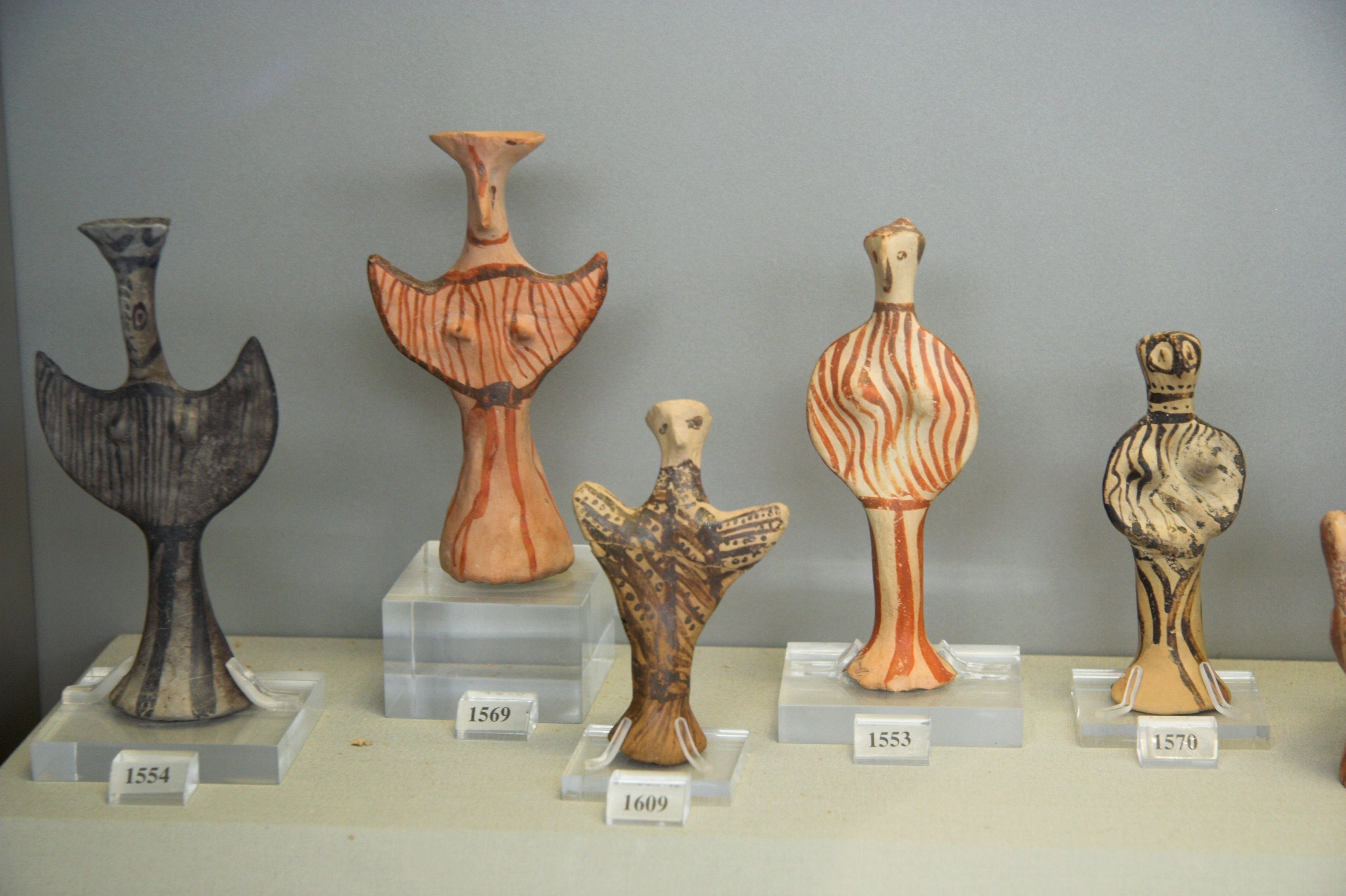 "Bird Goddess." Small terracotta. Mycenaean Late Bronze Age. National Archaeological Museum of Athens.